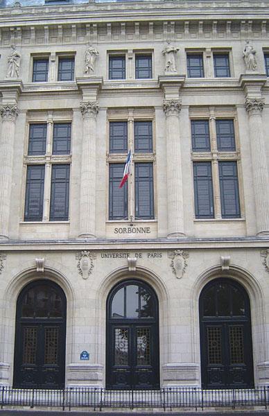 The Sorbonne, Paris by User:ChrisO